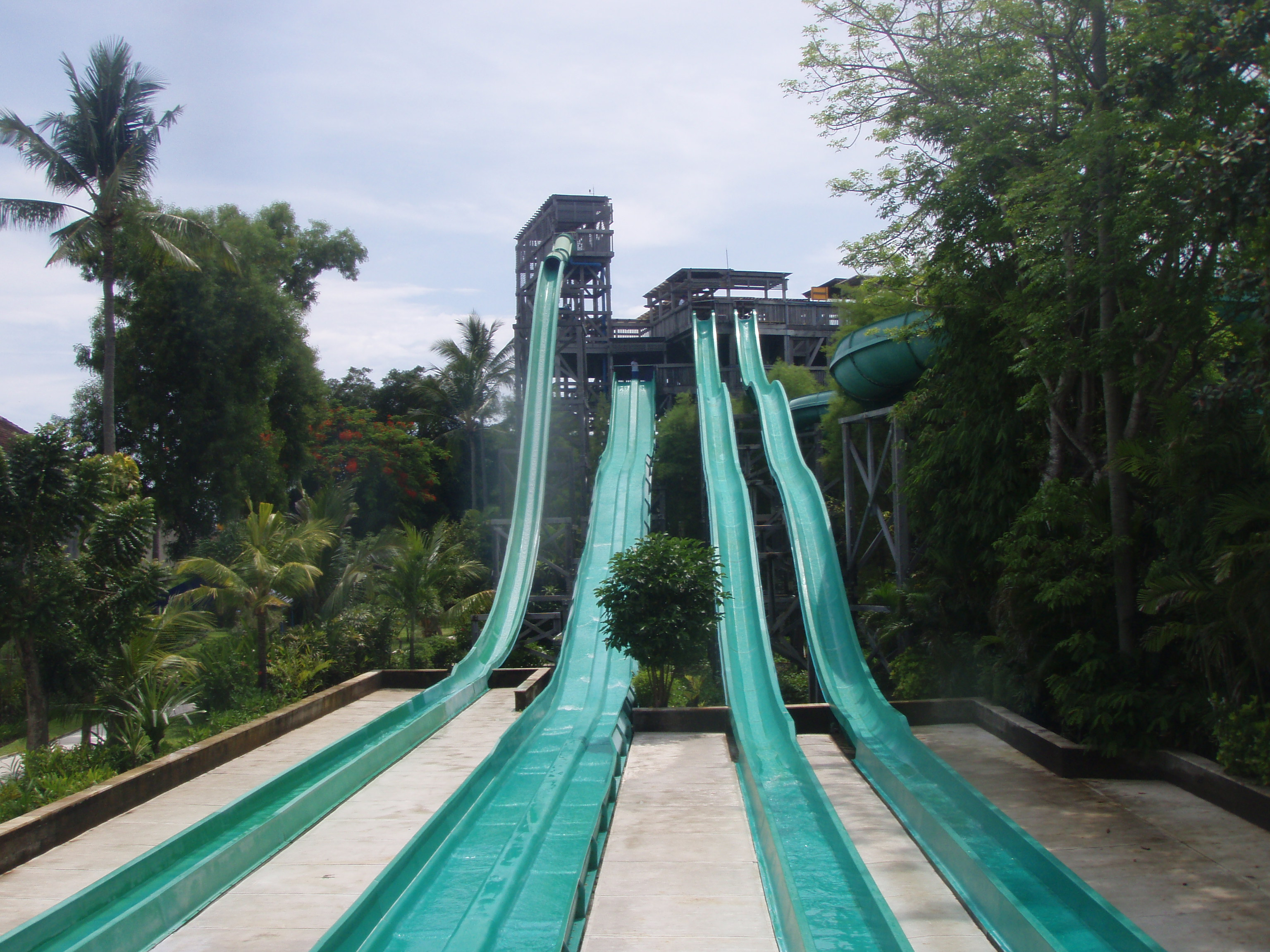 Waterbom Park From Left to Right - Smashdown, Race Track, Boogie Ride